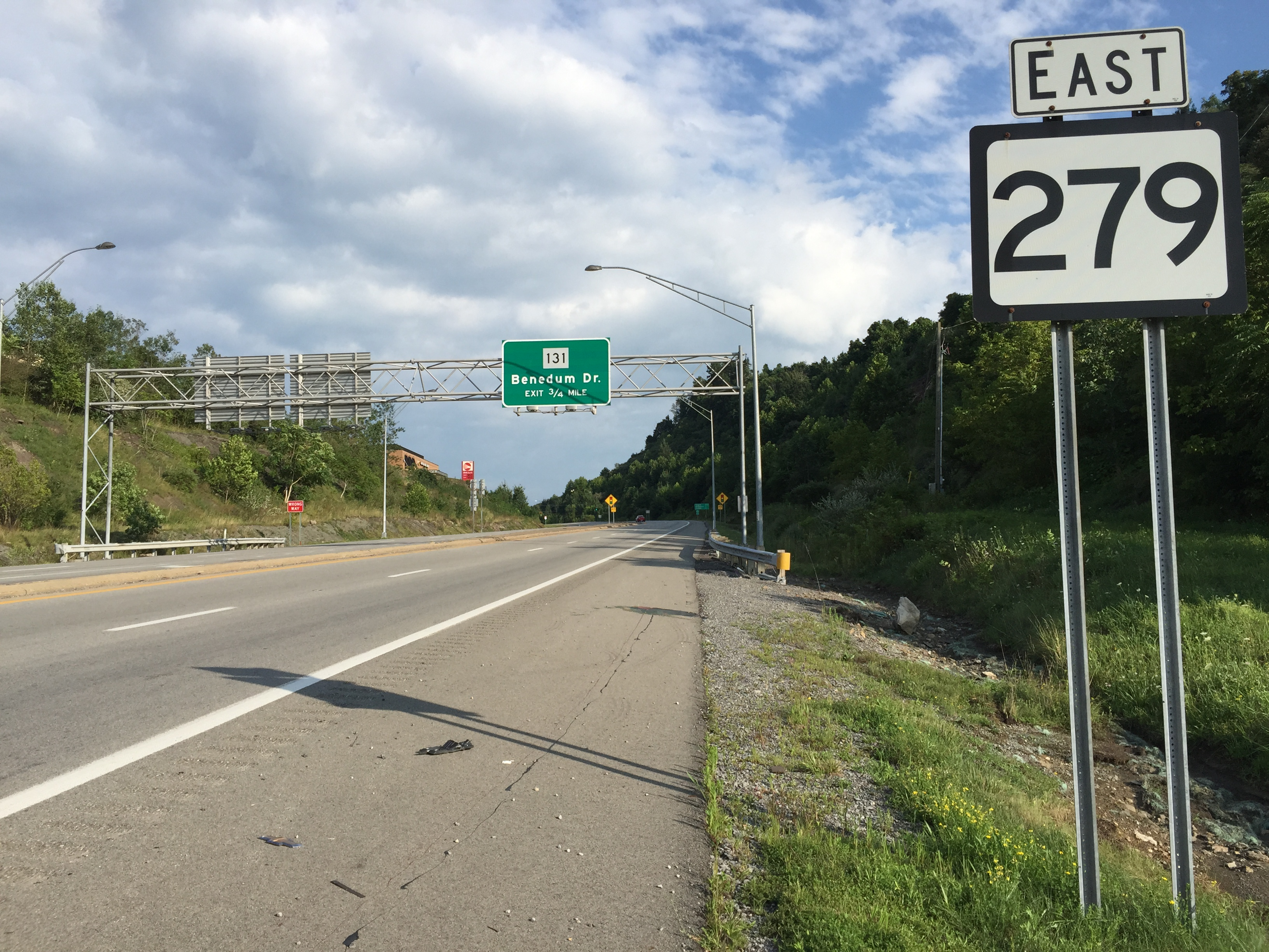 View east along West Virginia State Route 279 at Interstate 79 (Jennings Randolph Highway) in Bridgeport, Harrison County, West Virginia